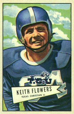 American football player Keith Flowers on a 1952 Bowman Large card.